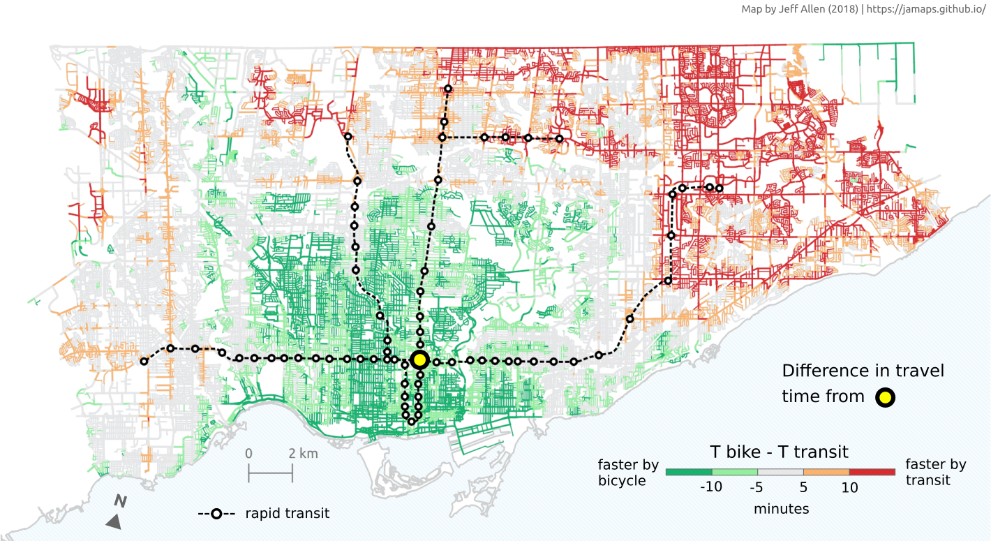 network-based isochrone map comparing transit and bike travel times from downtown Toronto